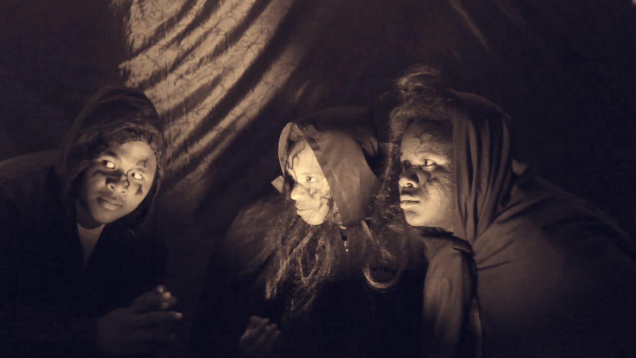 Learners portraying Macbeth's Three witches in there Film